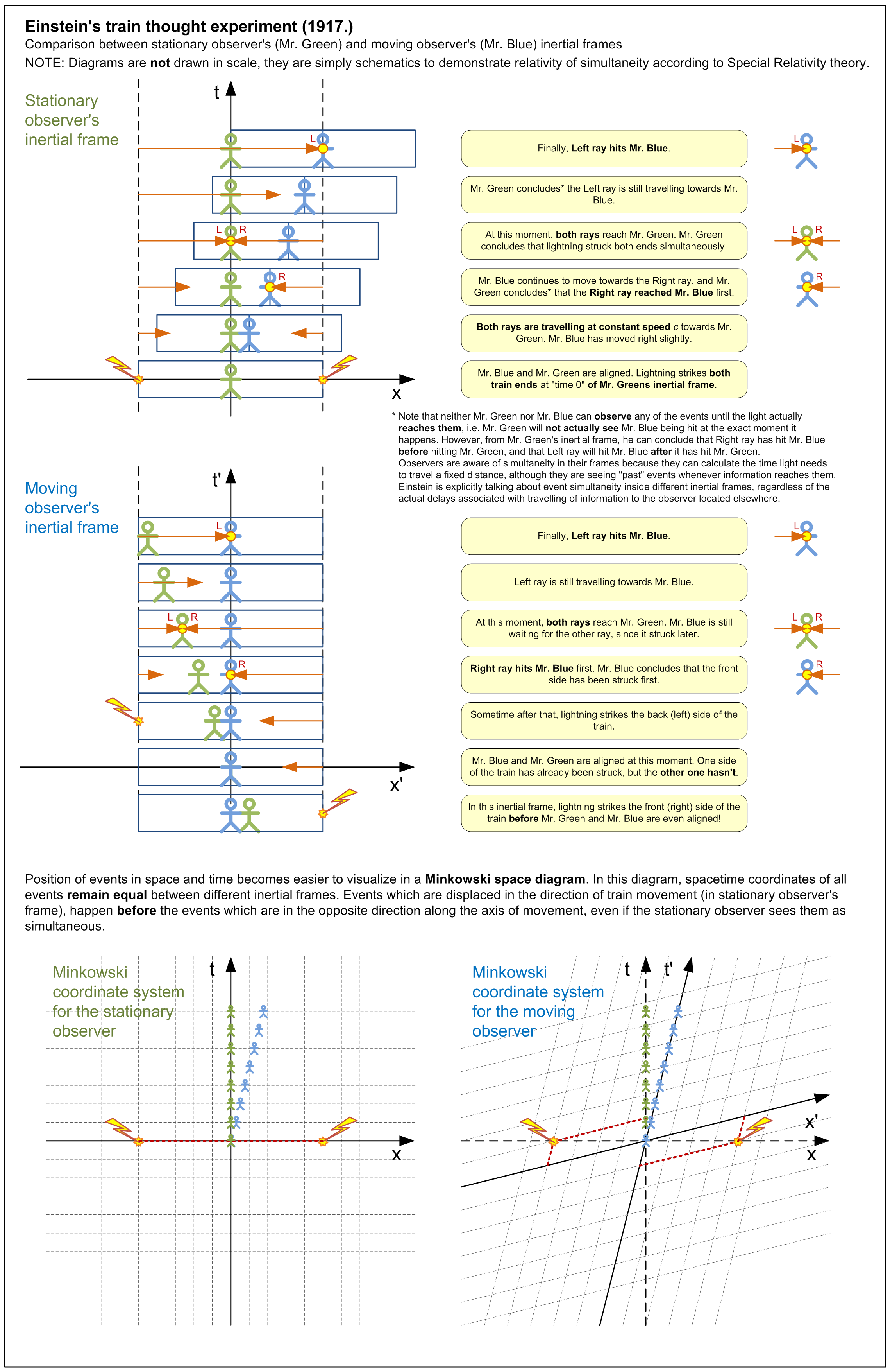 Schematic view of Einstein's train thought experiment, with two lightnings striking both ends of the moving train simultaneously (as perceived in the stationary observer's inertial frame). Event simultaneity differences are shown for both inertial frames, supported by Minkowski diagrams (not in scale).